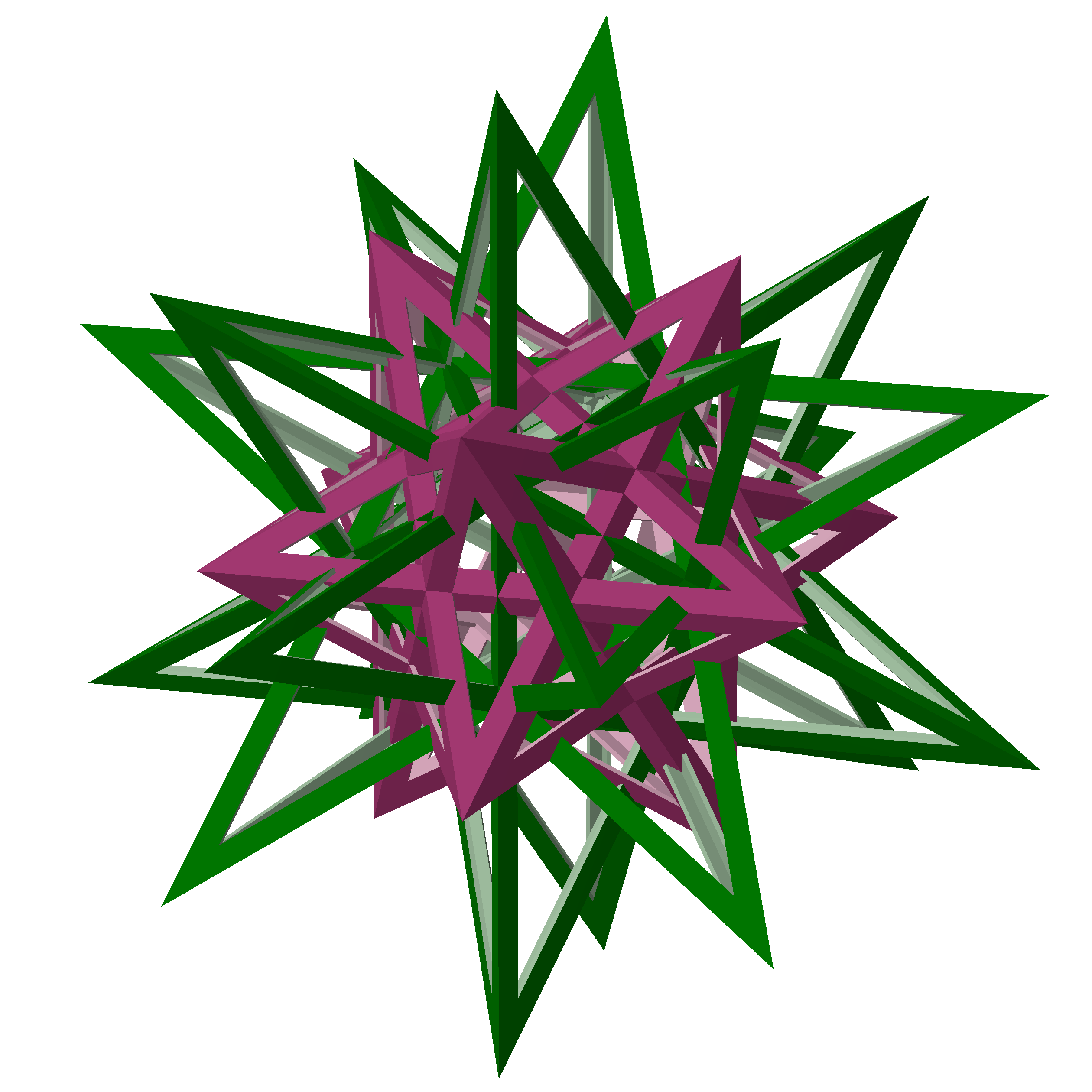 Regular polyhedra and their greatenings (Conway operation)Part of Skeletons of polyhedra (mostly green and violet) dodecahedron (violet),great dodecahedron (green) icosahedron (green),great icosahedron (violet) stellated dodecahedron (violet),great stellated dodecahedron (green) The images in this set have matching sizes. Please do not overwrite them with cropped versions. This image was created with POV-Ray.